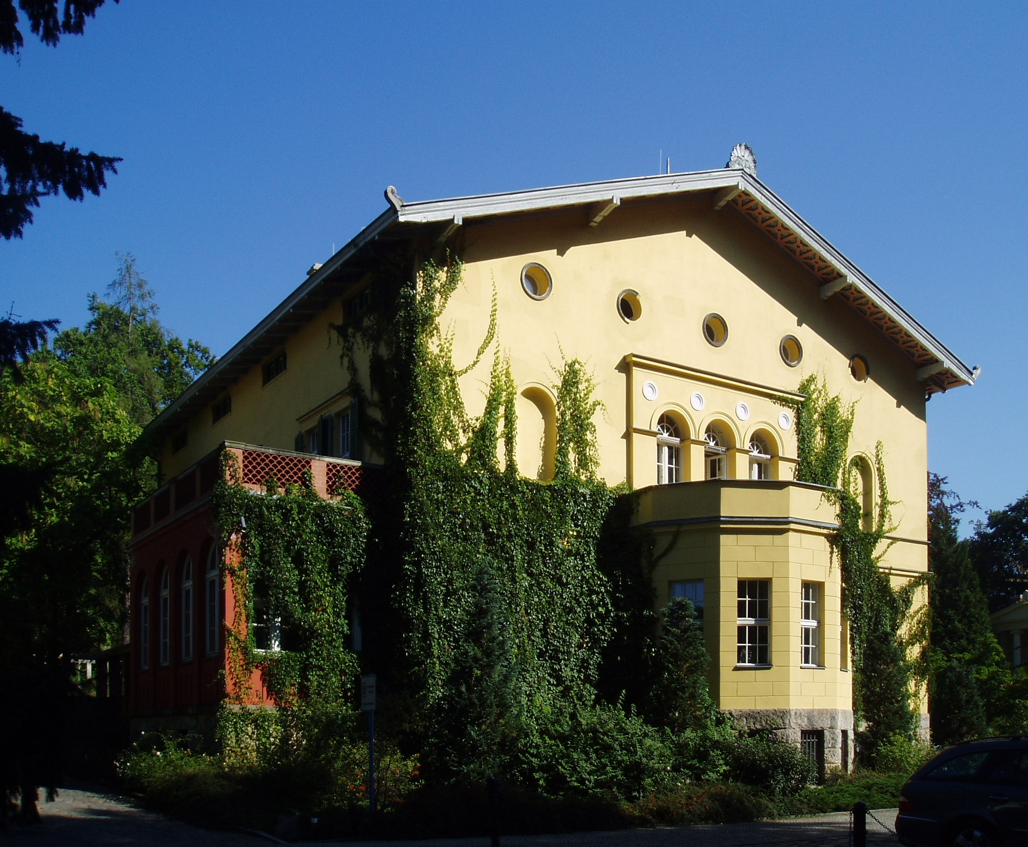 Botanical garden Potsdam, Germany, Villa Kache